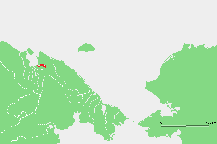 Location map